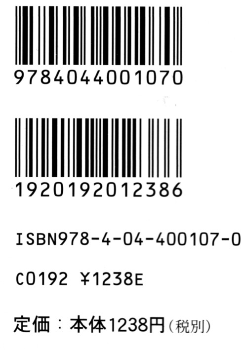 Japenese Book-Code with ISBN and Klassifikation